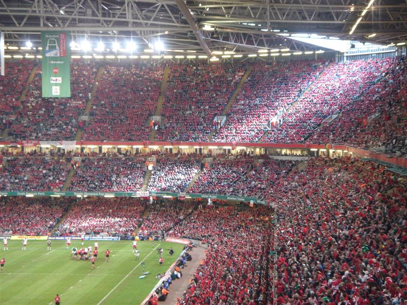 This picture was taken by me in the Cardiff Millennium Stadium during the Heineken Cup Final 2006, between Munster and Biarritz, using my sony DSC-T3. Notable are the hordes of Munster fans, although to give Biarritz their due, they had good travelling support but they too have red as one of their colours, lost in Munster's primary red. Visible bottom left, Munster are restarting and threathening Biarritz' try line. The three tiers of the stadium are visible, as well as the closed roof - thankfully with ventilation at the four corners allowing air, rain, and some dramatic sunlight in.